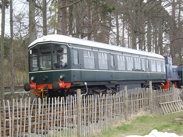 Railcar at Milton of Crathes